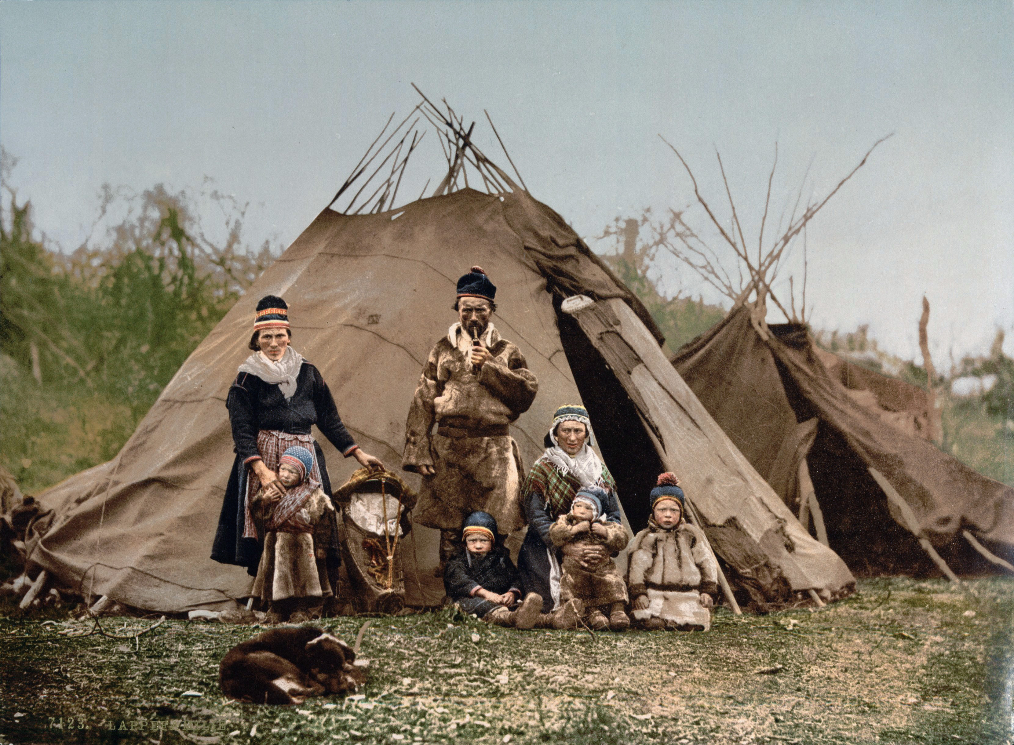 A Sami indigenous northern European family in Norway around 1900. The picture was probably taken in 1896 around the Kanstadfjord near Lødingen, Nordland. The adults on the left are Ingrid (born Sarri) and her husband Nils Andersen Inga. In front of the parents are Berit and Ole Nilsen. The lady on the right is Ellen, sister of Ingrid. In front of Ellen are the children Inger Anna and Tomas. The children of Inger Anna are reindeer herders still today. Description source. Detroit Publishing Co. Print no. 7123